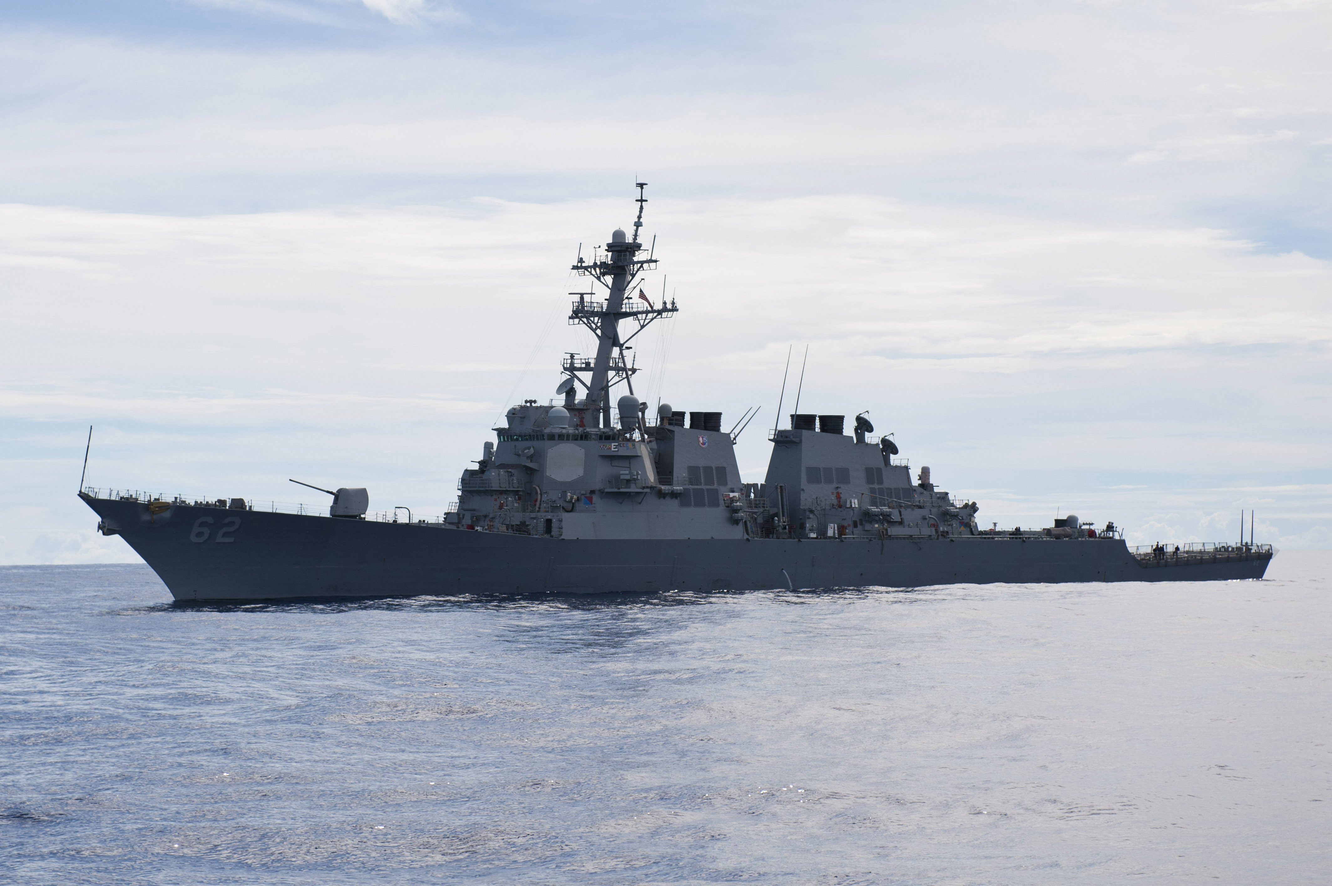 The guided missile destroyer USS Fitzgerald (DDG 62) is under way in the Pacific Ocean, Sept. 12, 2012, after participating in a live fire sinking exercise as part of Valiant Shield 2012. The crews of Fitzgerald and the guided missile cruiser USS Cowpens (CG 63) sank the former amphibious transport dock ship USS Coronado (AGF 11) to gain proficiency in tactics, targeting and firing against a surface target. Valiant Shield is a biennial U.S. Air Force, Navy and Marine Corps exercise held in Guam, focusing on real-world proficiency in sustaining joint forces at sea, in the air, on land and in cyberspace. (U.S. Navy photo by Mass Communication Specialist 3rd Class Paul Kelly)